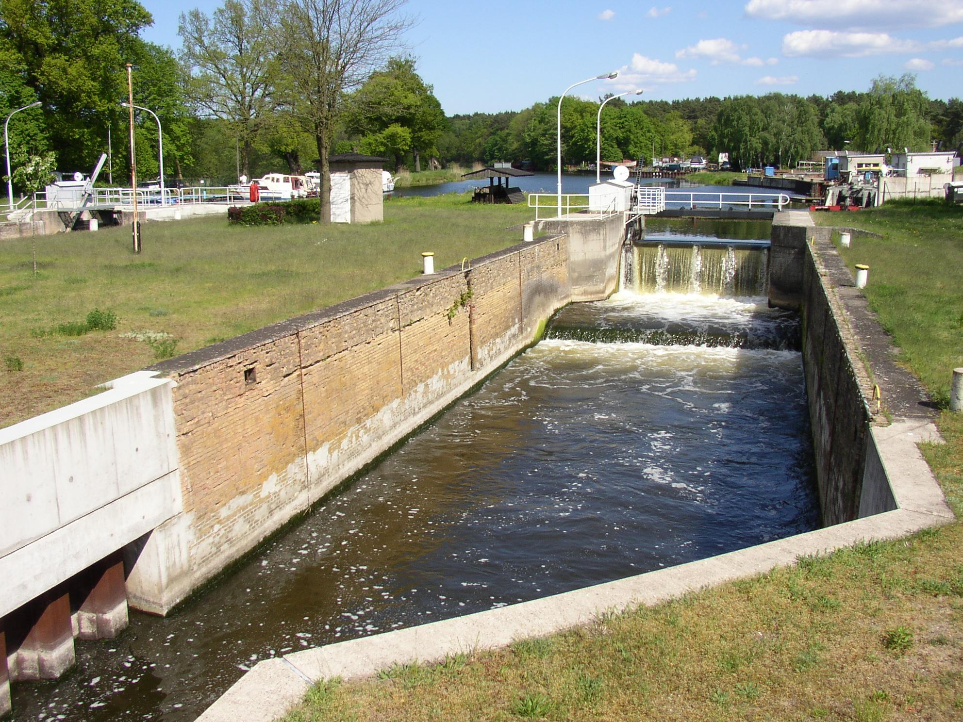 Former locks in Oranienburg-Malz in Brandenburg, Germany